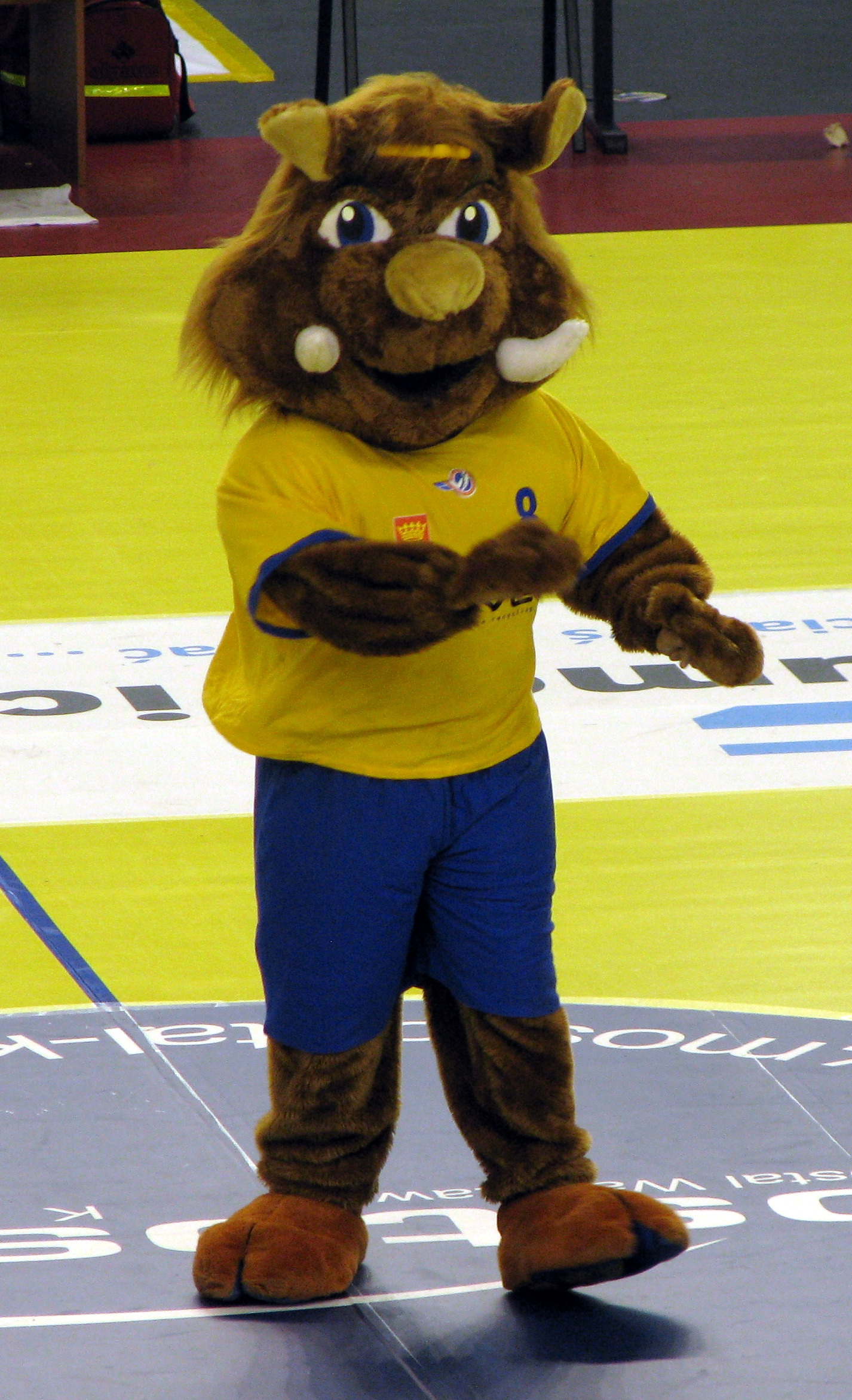 Kiełek - Vive Kielce mascot